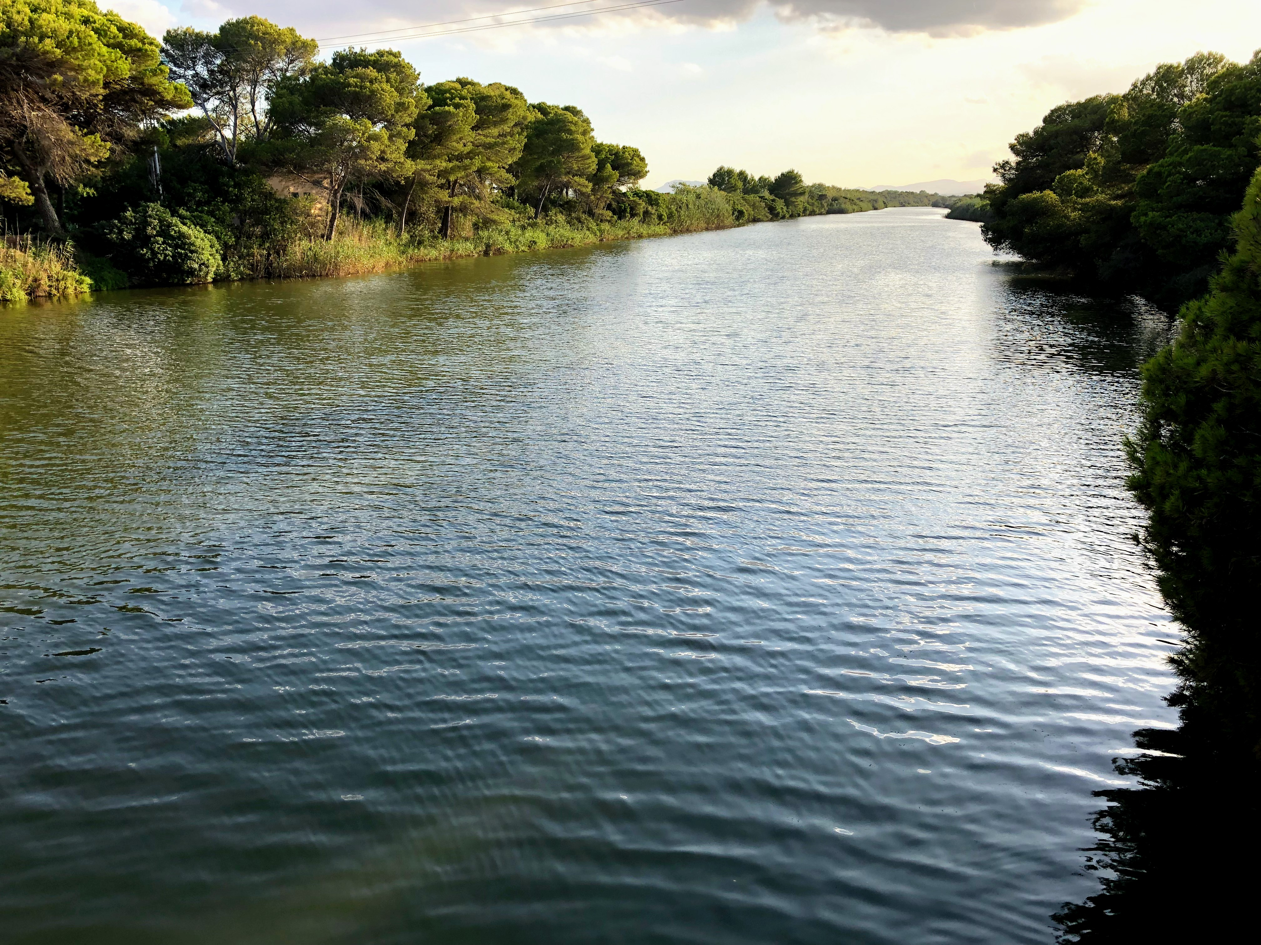 Parc Natural de s'Albufera de Mallorca, Spain, main channel